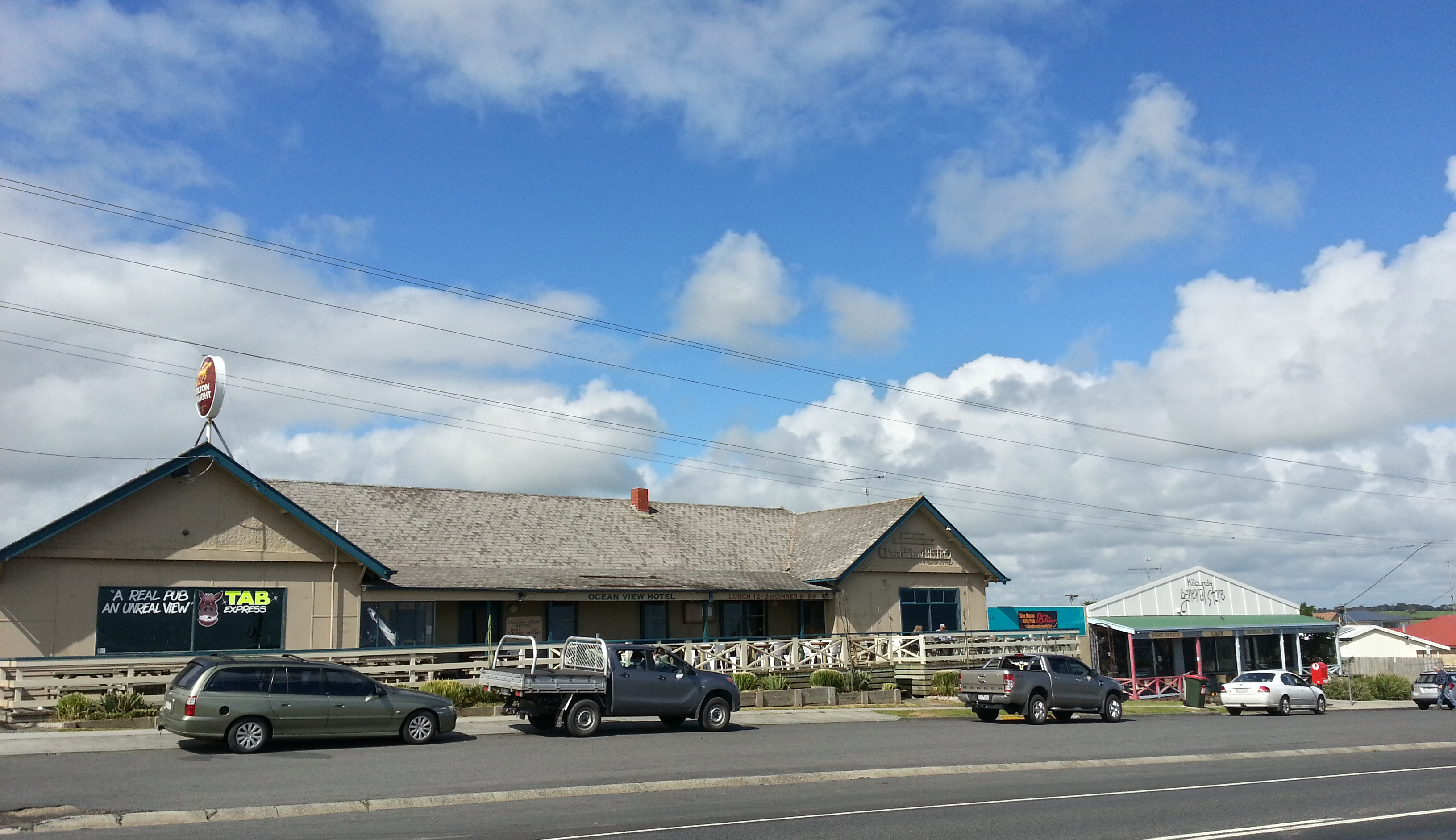 The Ocean Views Hotel in Kilcunda, Victoria, Australia